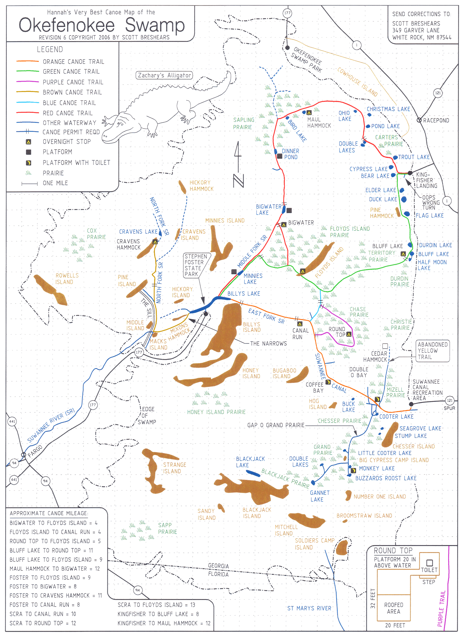 A scaled map of the Okefenokee Swamp showing canoe trails